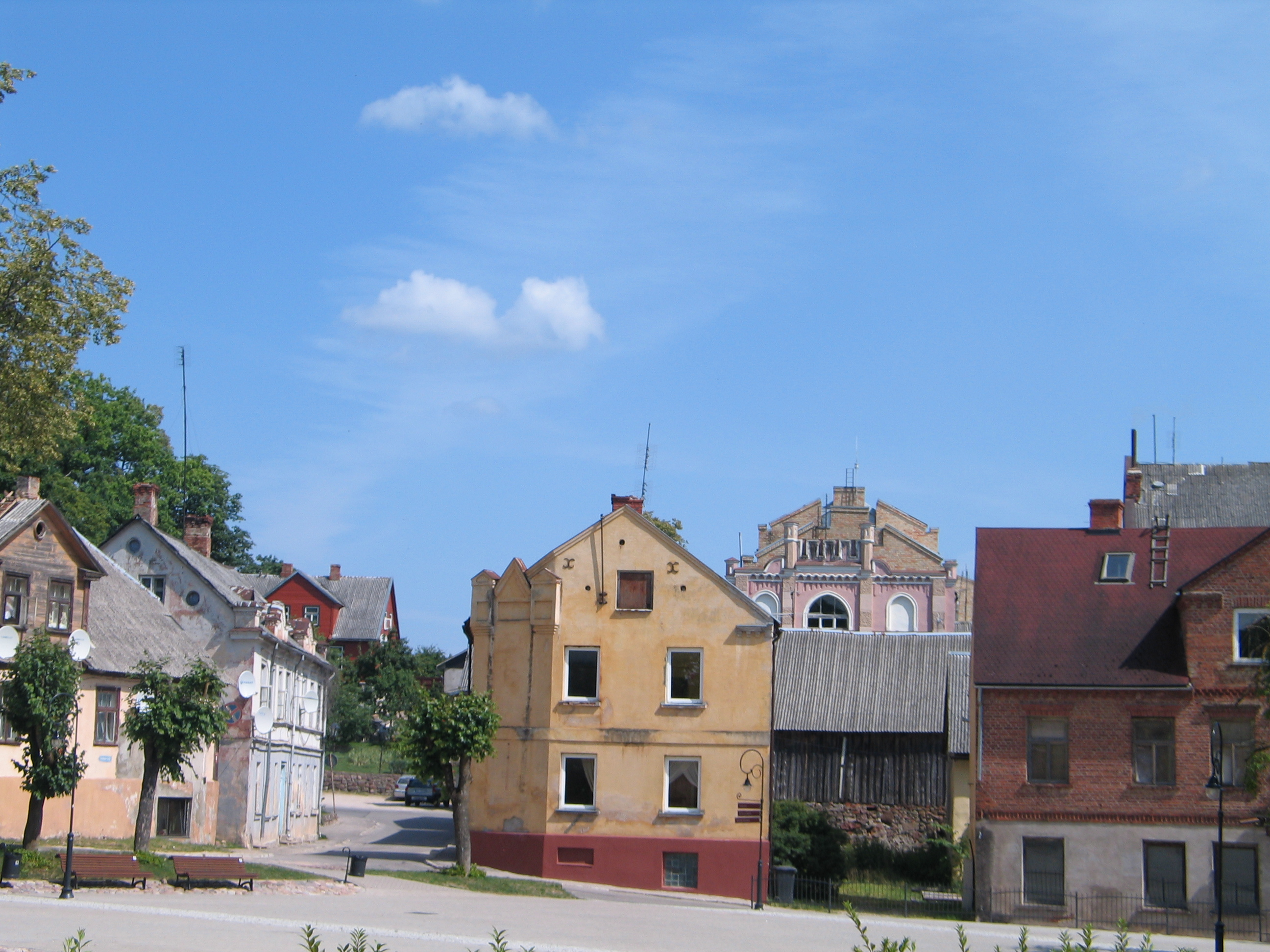 Market square in Kandava